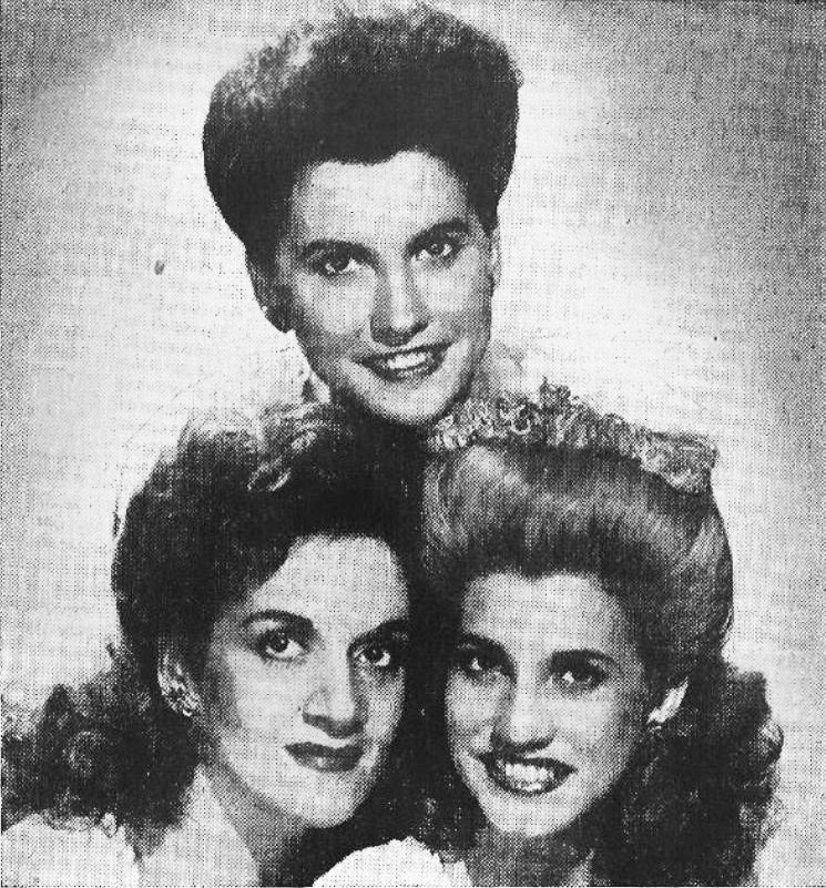 The Andrews Sisters